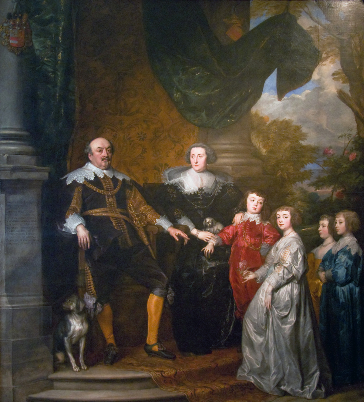 Jan VIII 'the Younger', count of Nassau-Siegen with his family oil on canvas 292 x 264 cm inscribed b.l.: IOANNES COMES DE NASSAV / CATZENEILENBOGEN VIANDEN / DIETZ , & EQVES AVREI VELLER/IS, CAPITAN EVS GENERALIS / EQVITATVS REGII IN BELGIO / ET CÆCAREORVM EXERCITVS / VM MARECHALLVS GENERA / LIS: CVM COIVGE ERNESTINA / YOLANTA PRINCIPE DE LIGNE &c / EX QVA ILLI HI LIBERI SCLT: / CLARA MARIA ERNESTINA / LAMBERTA ALBERTA. ET / FRANCISCVS IOANNES NASSA/VIÆ. COMITES NATI SVNT: QVORVM MEMORIÆ HÆC / TABVLA DEDICATA EST / ANNO CHRISTI M.DC./ XXXIV 1634